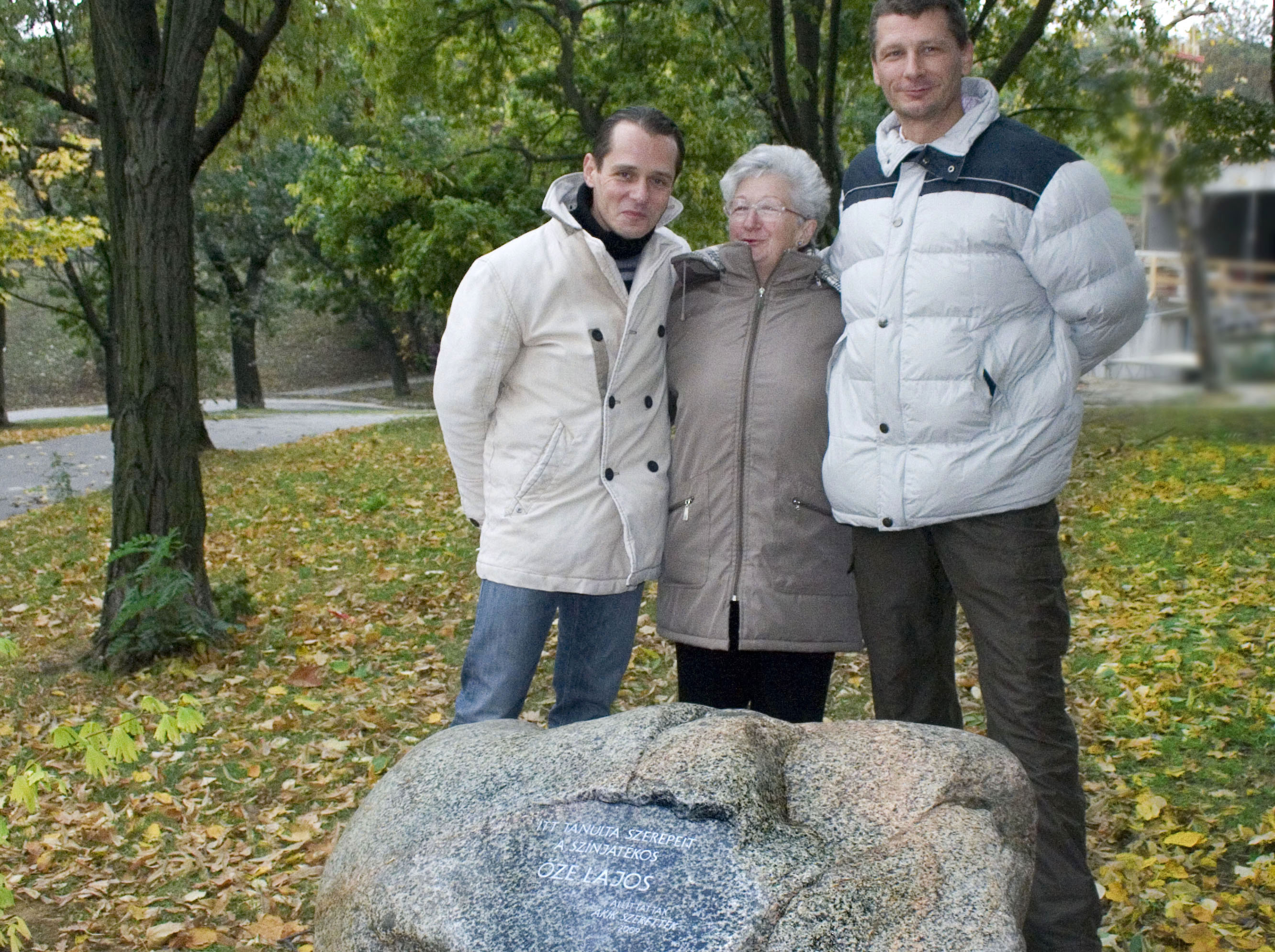 Lajos Őze Hungarian actor memorial stone, the Sun hill, Budapest, Hungary. This image is made of the inauguration, 17. 10. 2009. Louis Őze two sons and a sister in the middle.